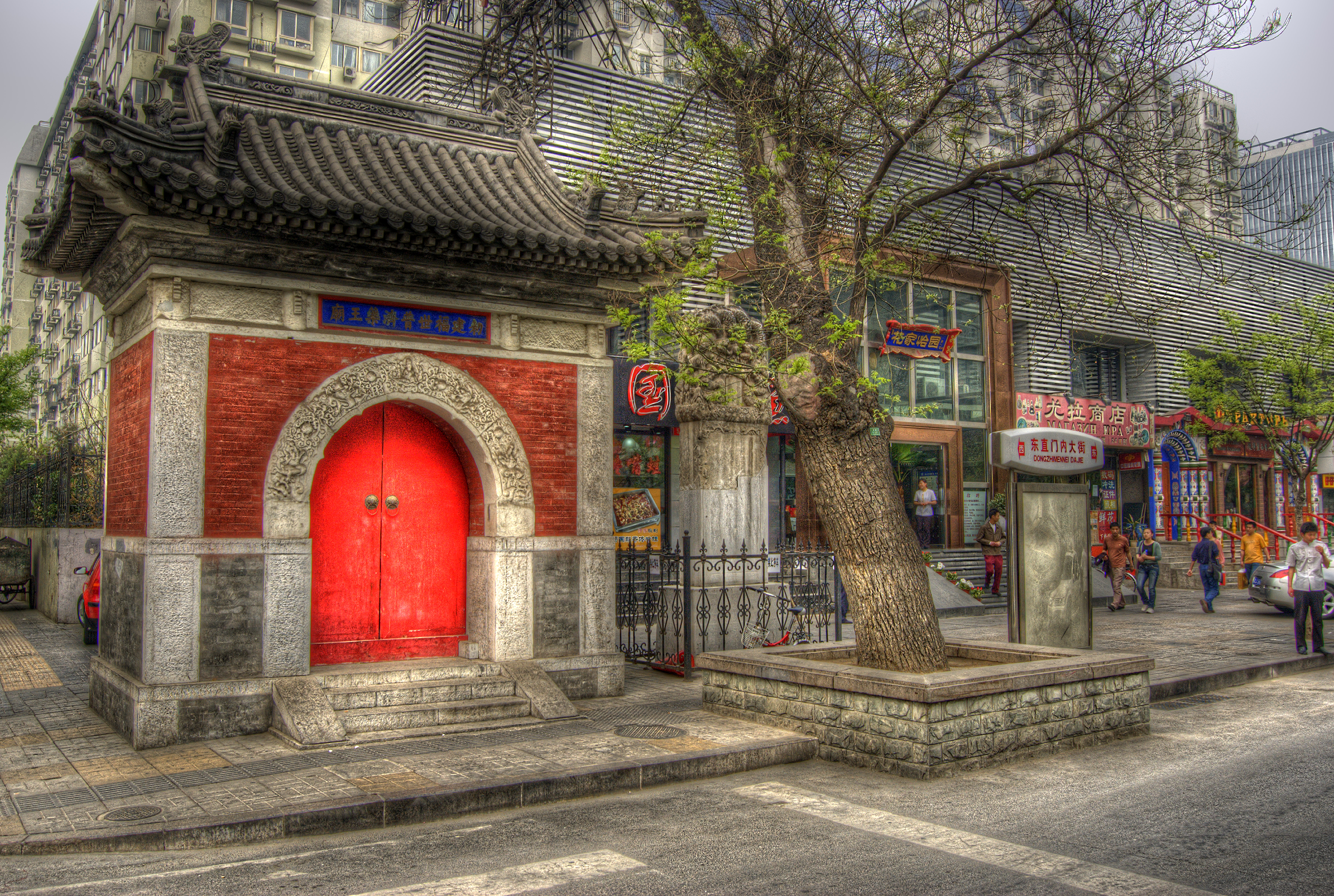 East Yaowang(Herbal King) Temple in Beijing